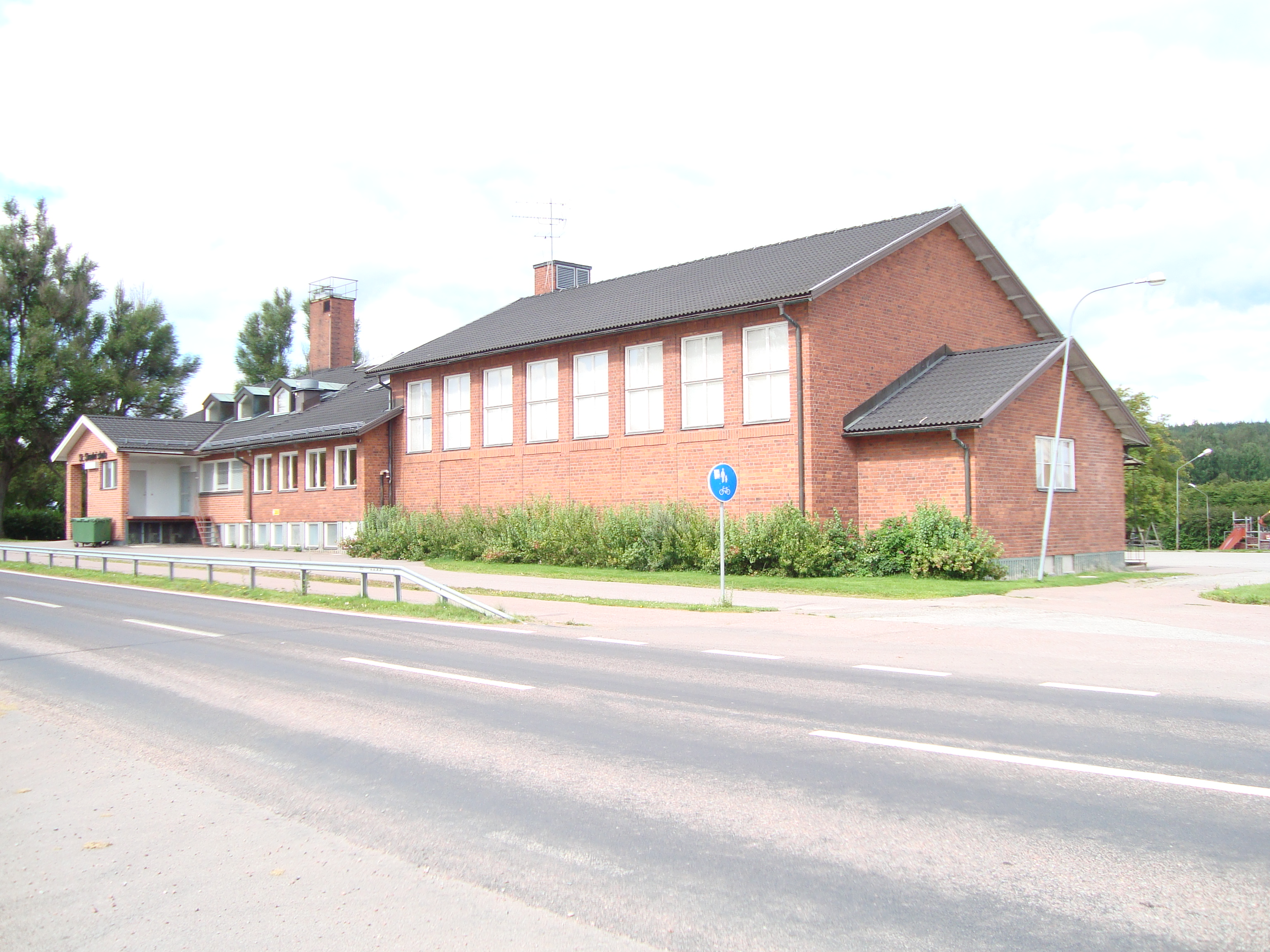 School of Stora Skedvi, Säter Municipality, Sweden